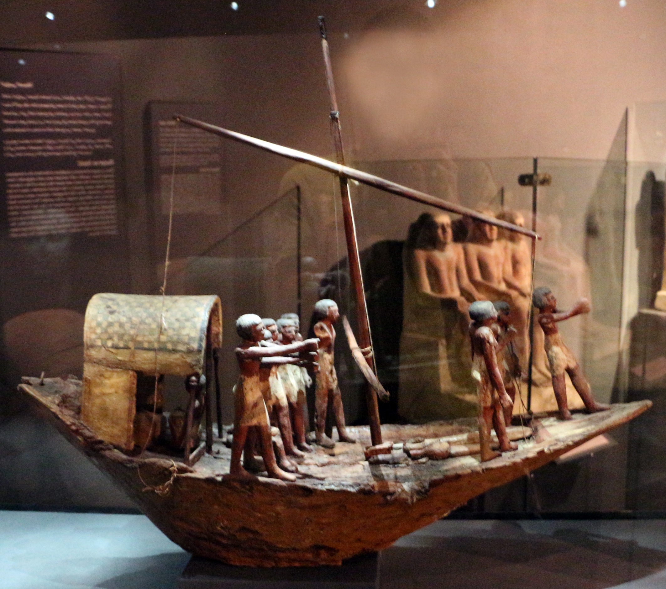 Collections of the Alexandria National Museum